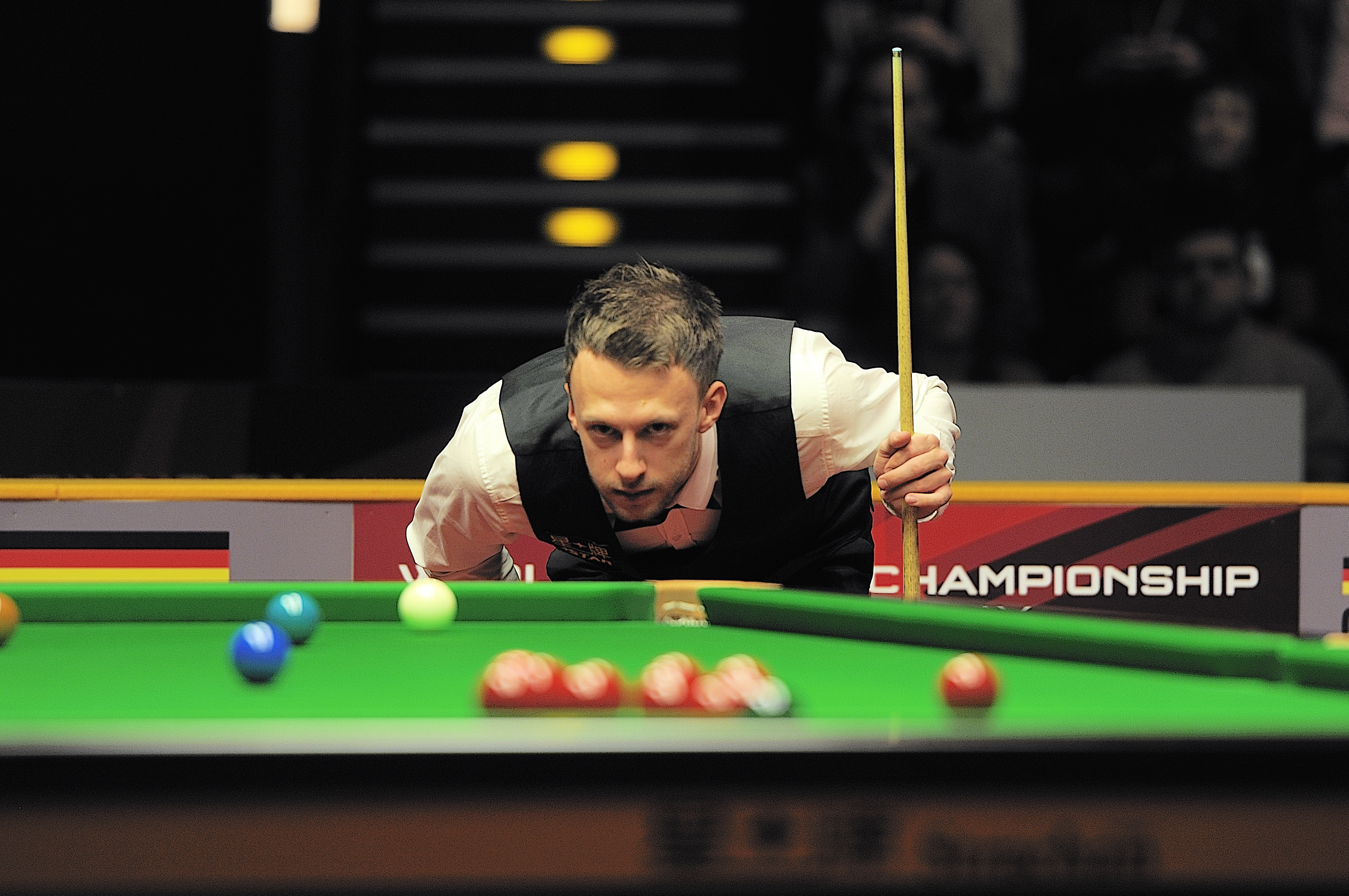 Picture taken in Berlin during the Snooker German Masters in 2014. Judd Trump.